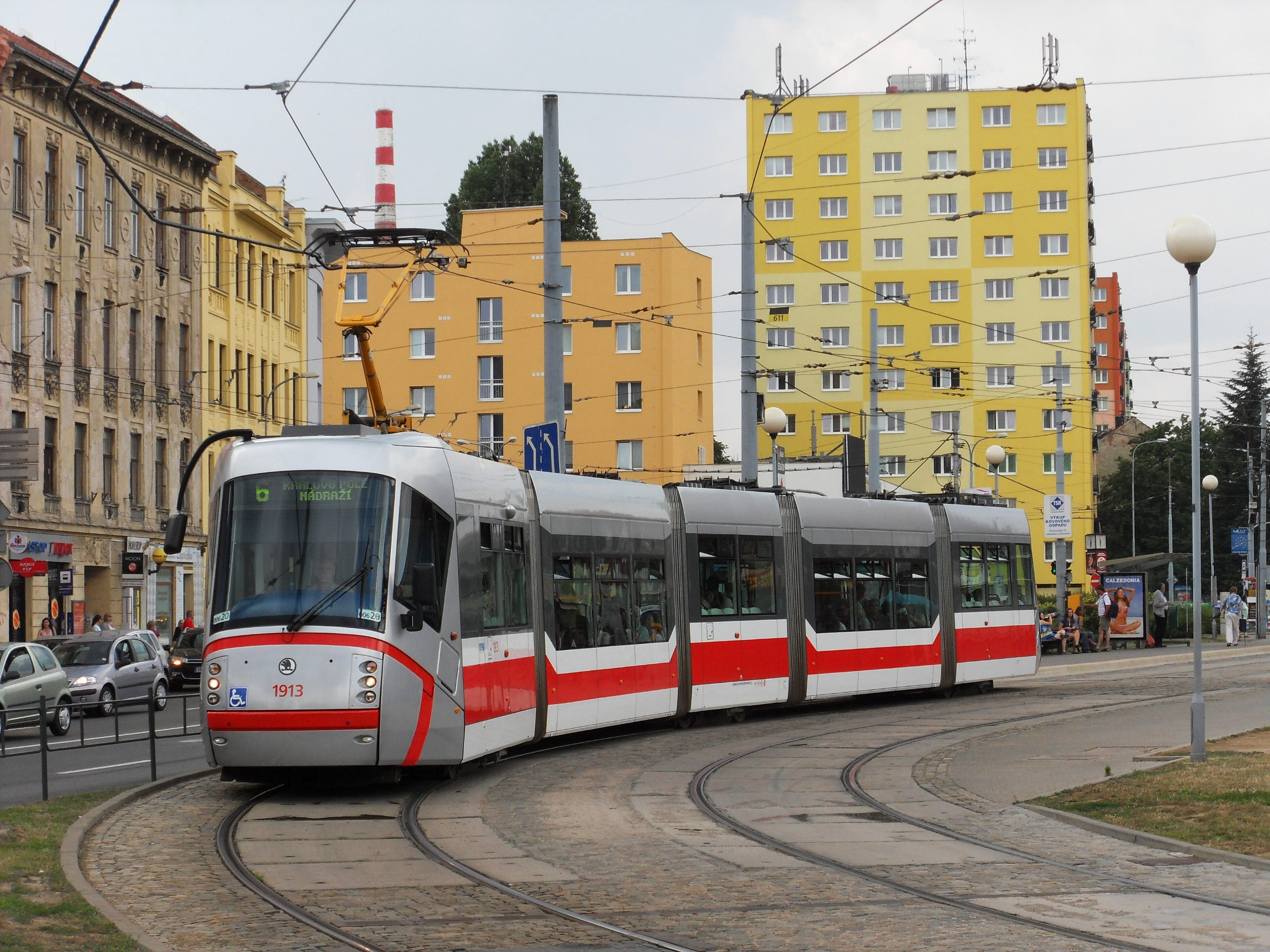 Škoda 13T tram No. 1913 of Dopravní podnik města Brna, Brno, Czech Republic